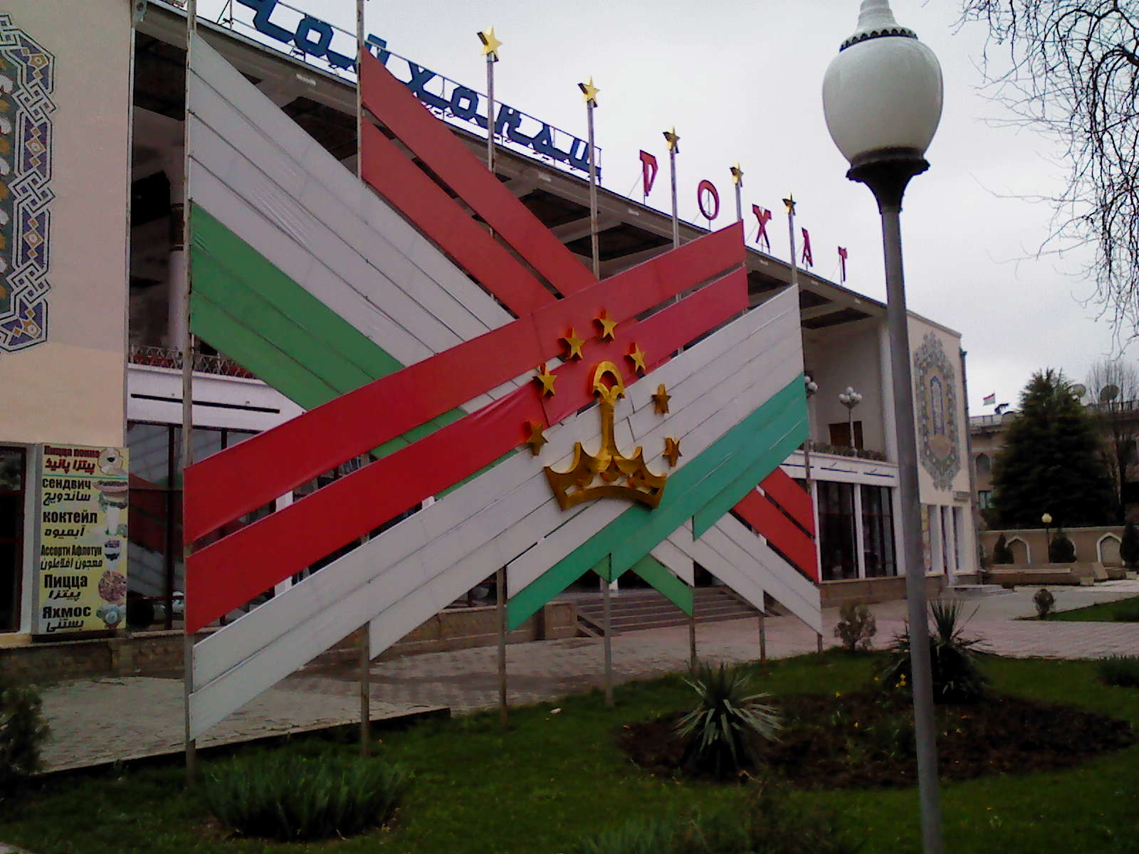 Tea House Rohat.Rudaki Ave., Dushanbe